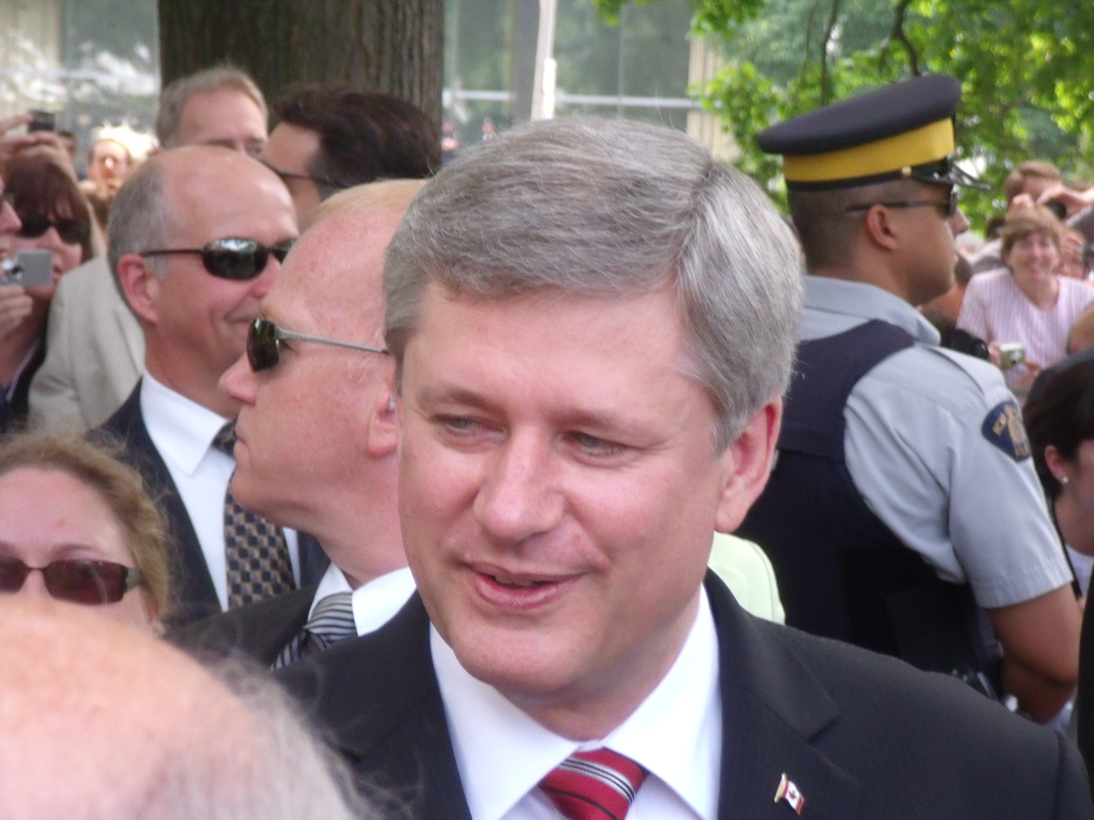 Stephen Harper at Queen's Park